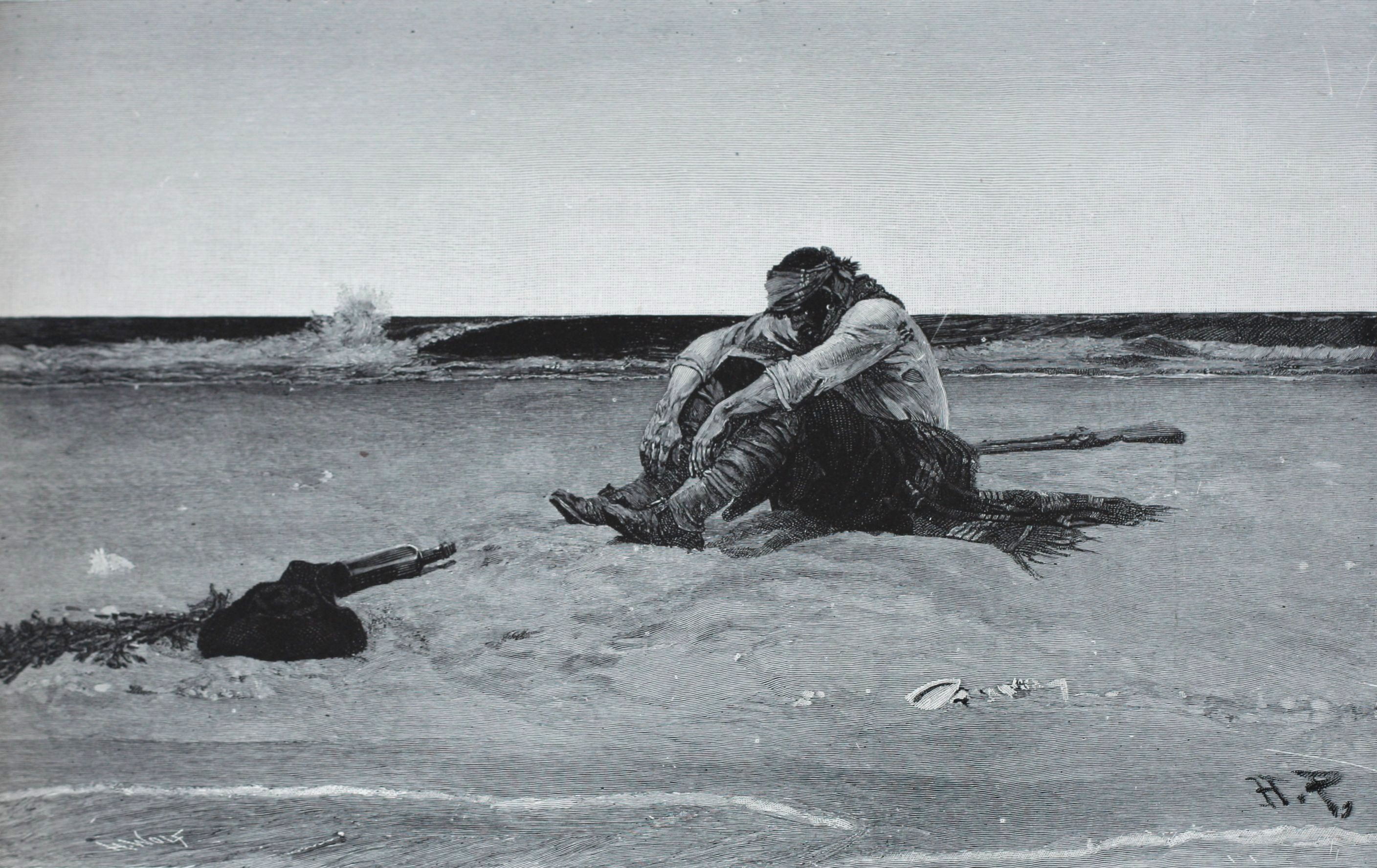 Marooned: this was originally published in Pyle, Howard (August–September 1887). "Buccaneers and Marooners of the Spanish Main". Harper's Magazine.